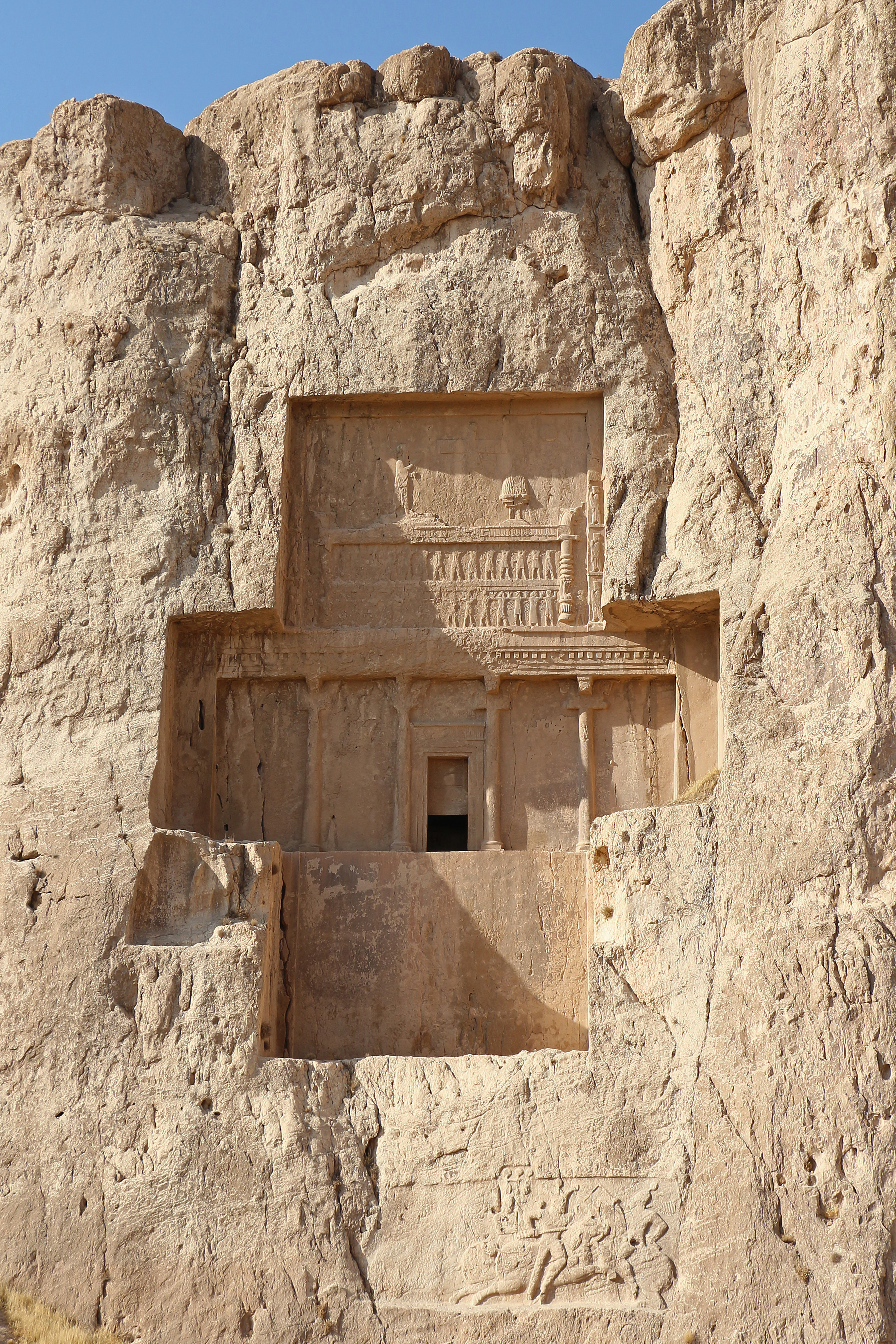 Tomb of Darius II, Naqsh-e Rustam, Iran